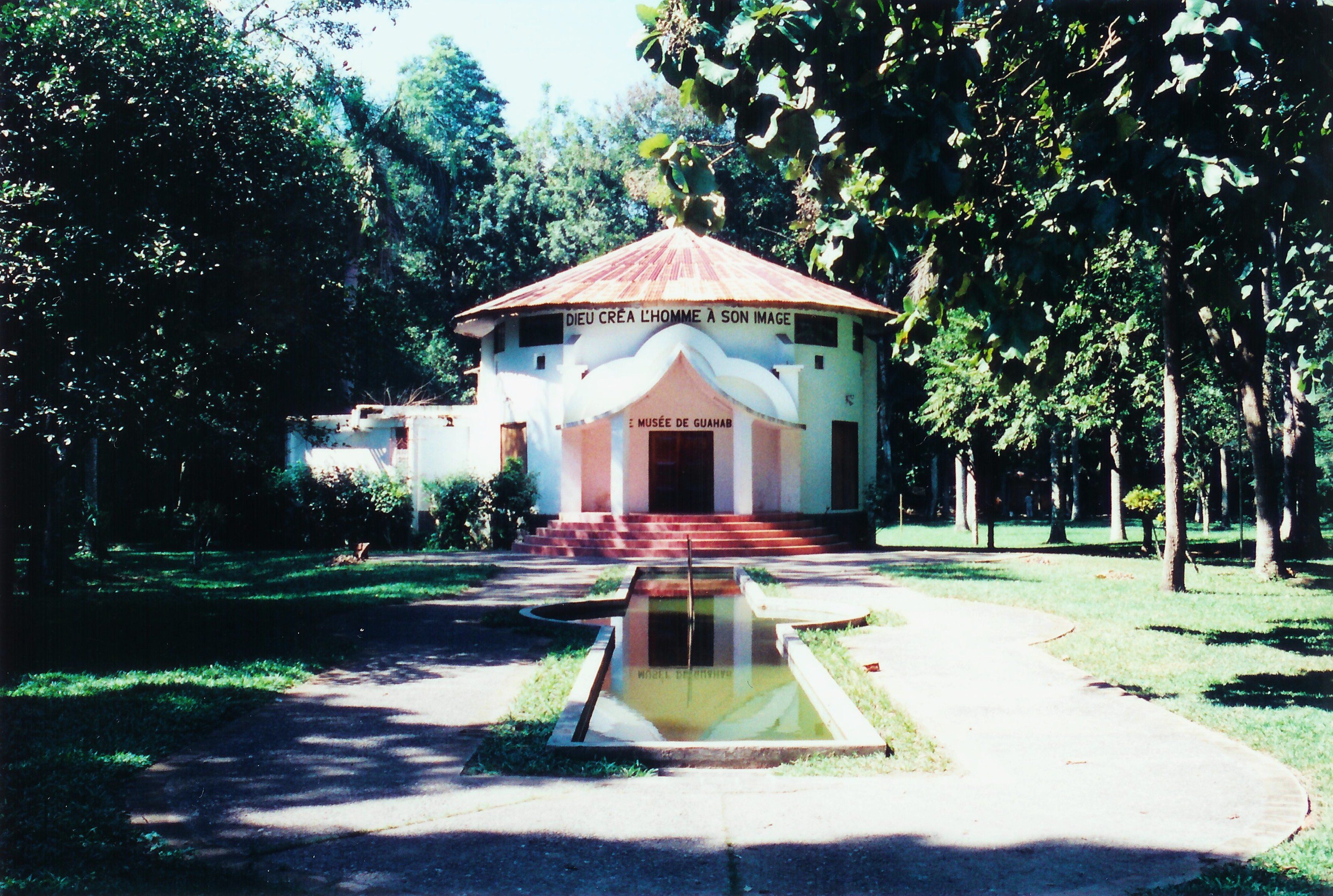 Guahaba museum is a small private museum in Limbe dedicated to Pre-Columbus native artefacts.